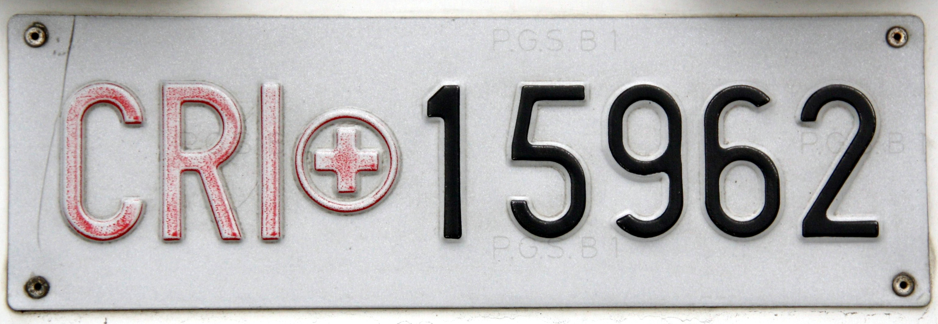 Italy. The Croce Rossa Italiana License plate.